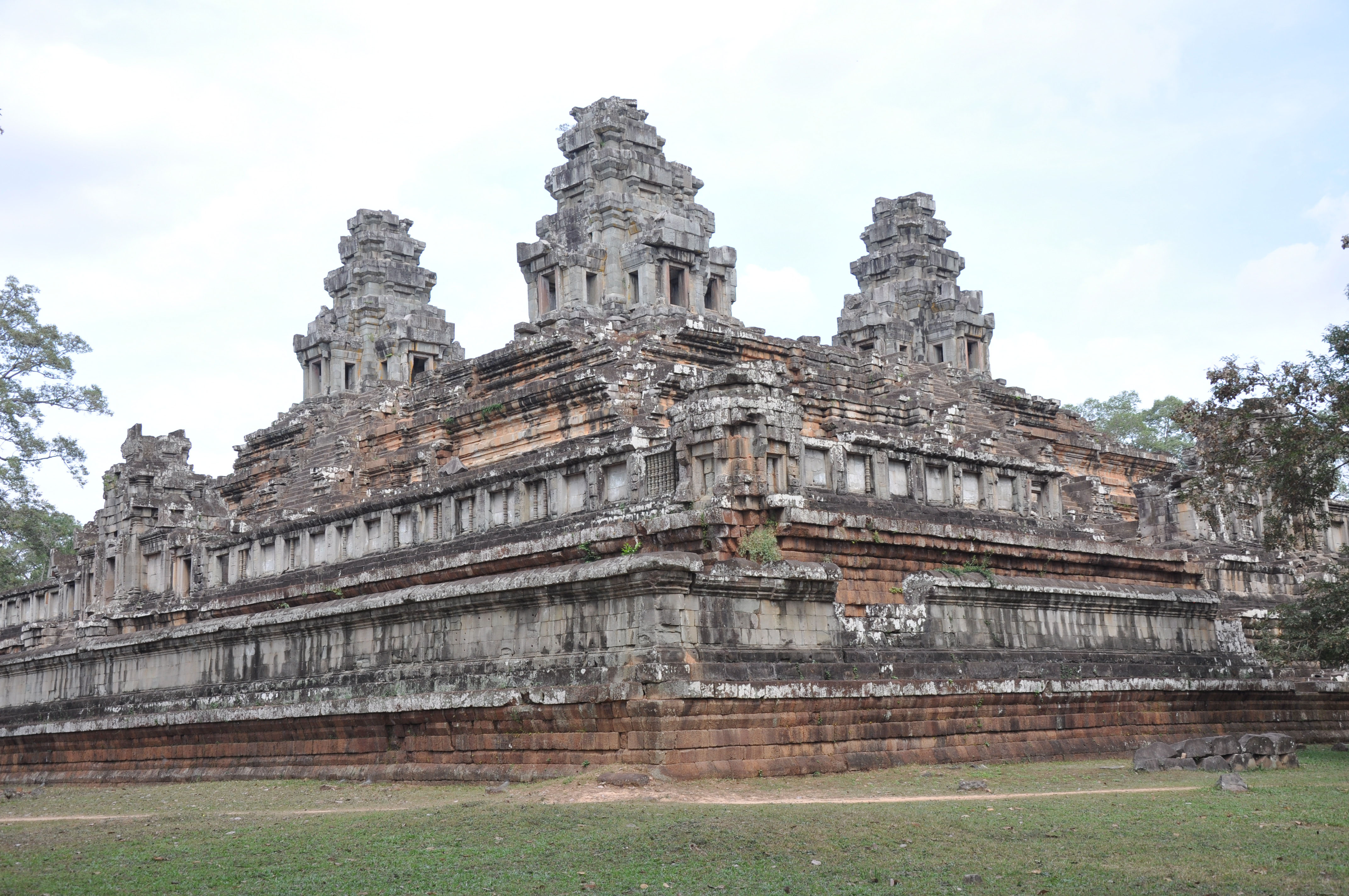 Ta Keo is a temple-mountain, in Angkor (Cambodia), possibly the first to be built entirely of sandstone by Khmers.